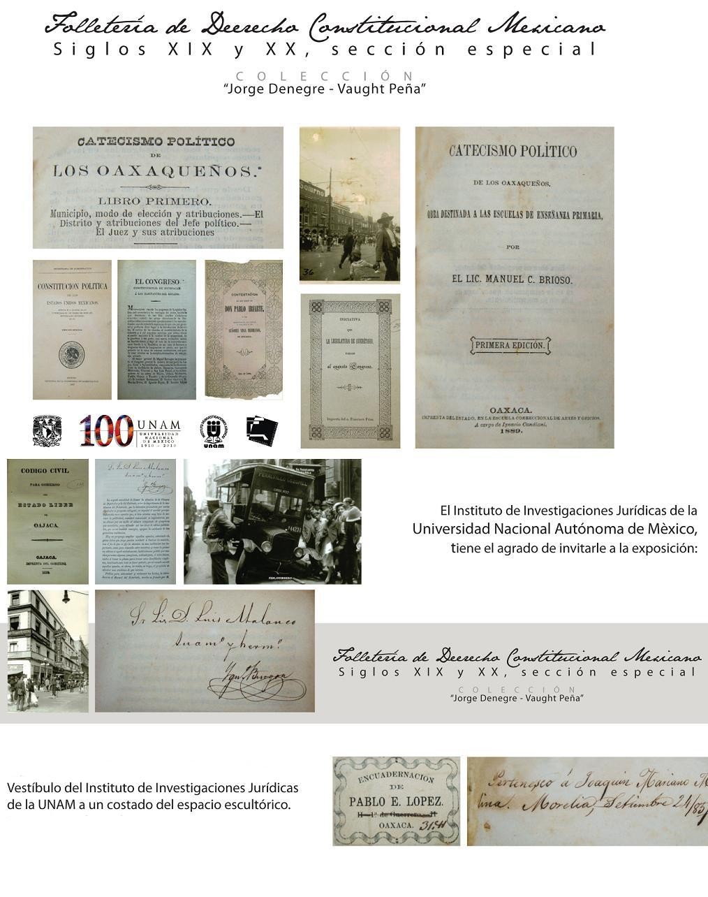 Exposición de folletos históricos adquiridos por el Instituto de Investigaciones Jurídicas integrando la Colección Denegre Vaught Peña